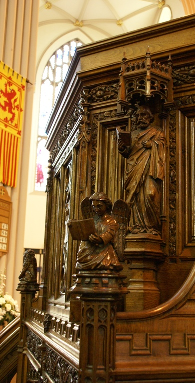 Dunfermline Abbey, Fife, Scotland - Pulpit detail in The Abbey Church